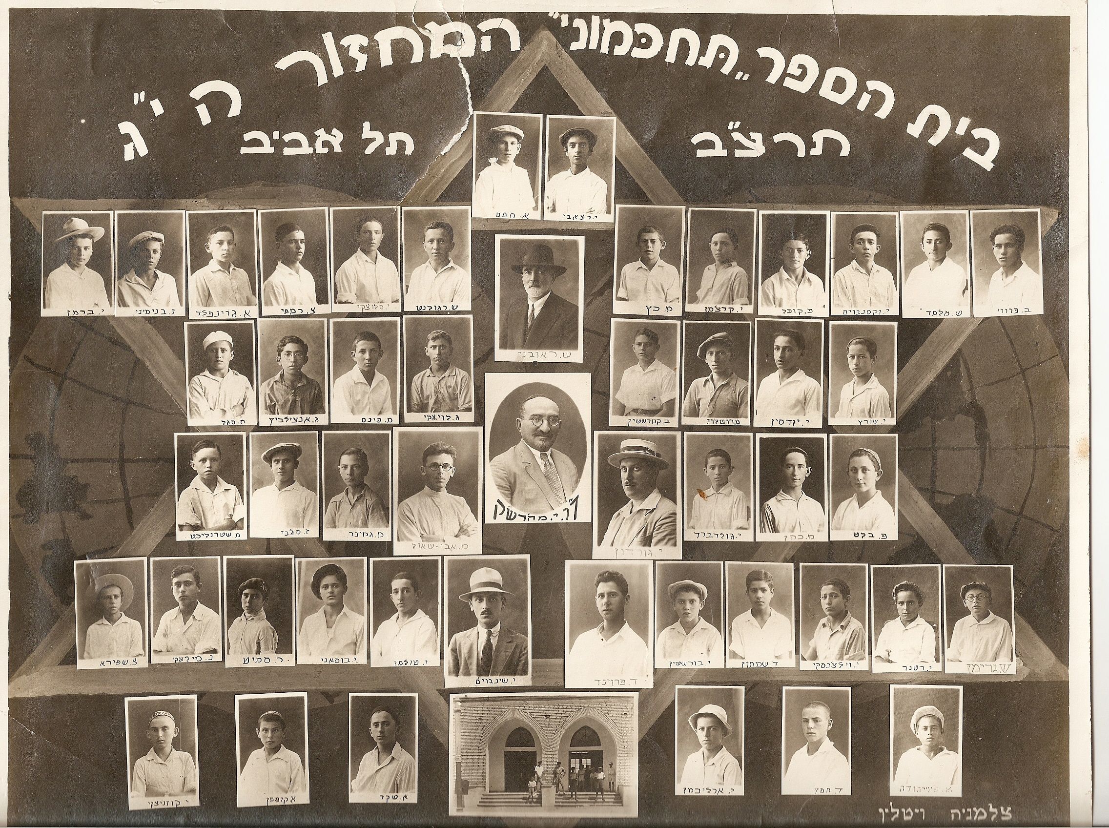 Tachkemoni School Class of 1922, Education in Israel